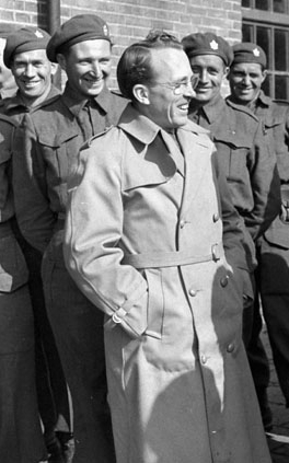 Hon. T.C. Douglas, Premier of Saskatchewan, talking with Private P. Campbell of The Saskatoon Light Infantry (M.G.), Barneveld, Netherlands, 29 April 1945(cropped)